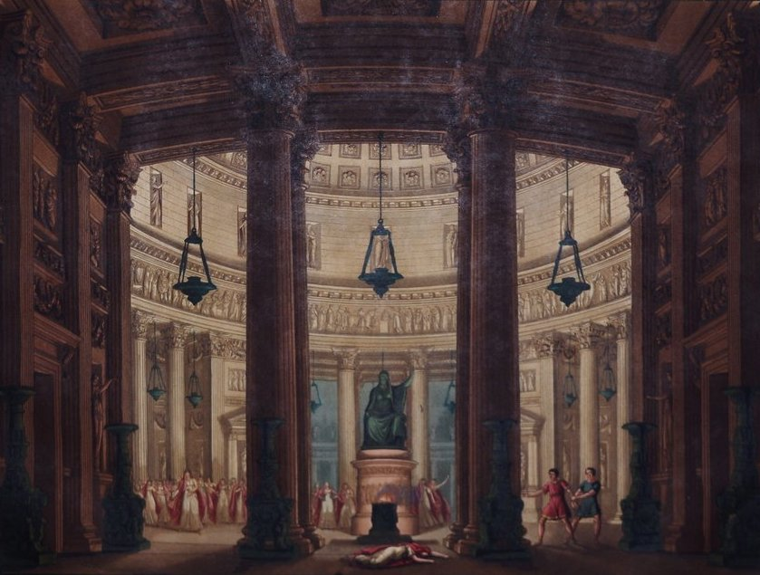 Scene (Tempio di Vesta / Temple of Vesta) from the ballet "La Vestale" by Salvatore Viganò, created 1818 at La Scala, Milano. Set design by Alessandro Sanquirico Caption : (Italian) "Tempio di Vesta; col simulcro della dea, dinanzi alla quale arde il fuoco sacro. Questa scena fu eseguita pel ballo tragico, La vestale, inventato, e posto sulle scene dell'I. R. Teatro alla Scala dal Sig. Salvatore Viganò. Nella primavera dell'anno 1818"